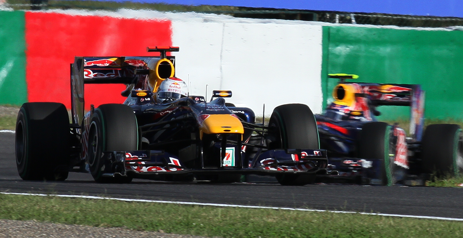 Formula One 2010 Rd.16 Japanese GP: Sebastian Vettel (Red Bull) during the race.